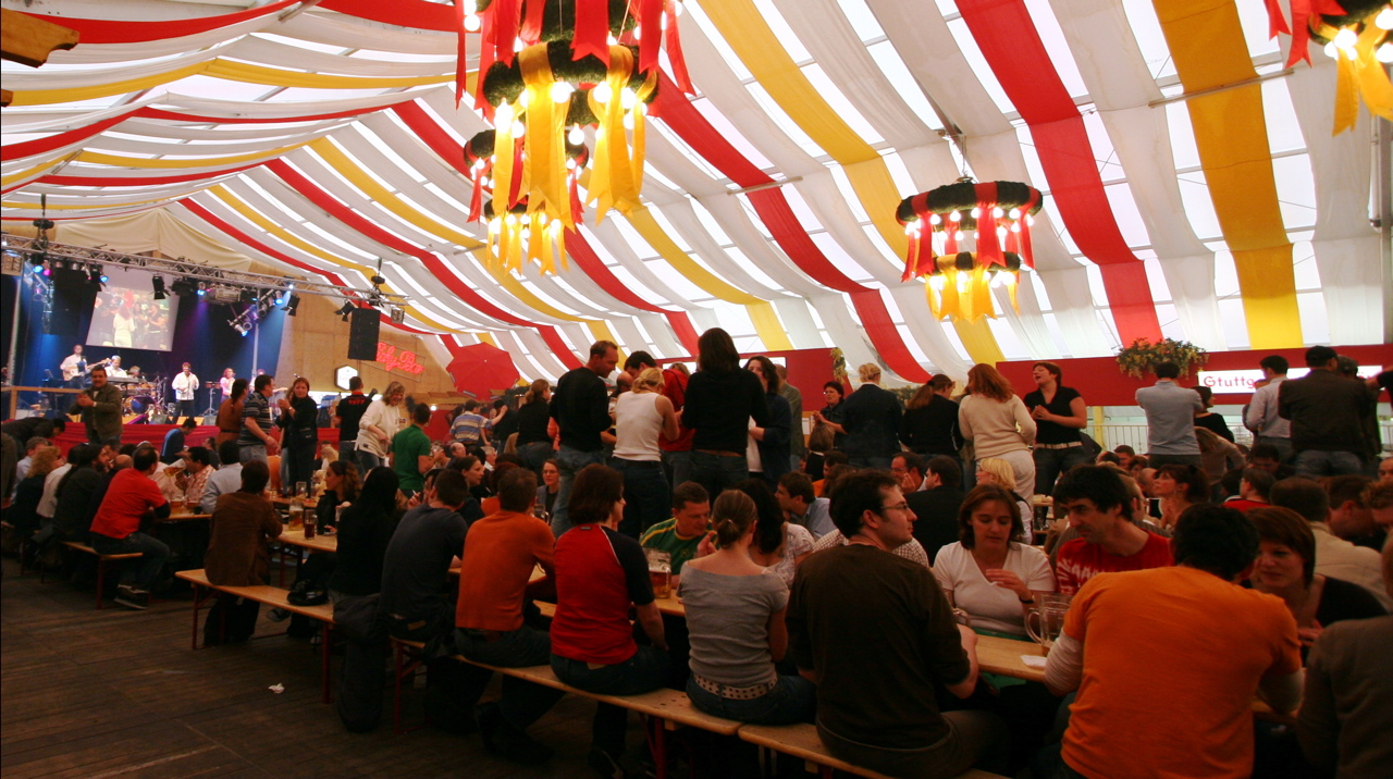 Stuttgart Fruehlingsfest 2006, taken from the Stuttgarter Hofbrau tent. Photo taken by Victor Trac.